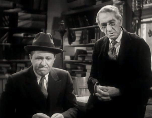 Stuart Erwin (left) and Otto Hoffman in Mr. Boggs Steps Out (1938) - cropped screenshot